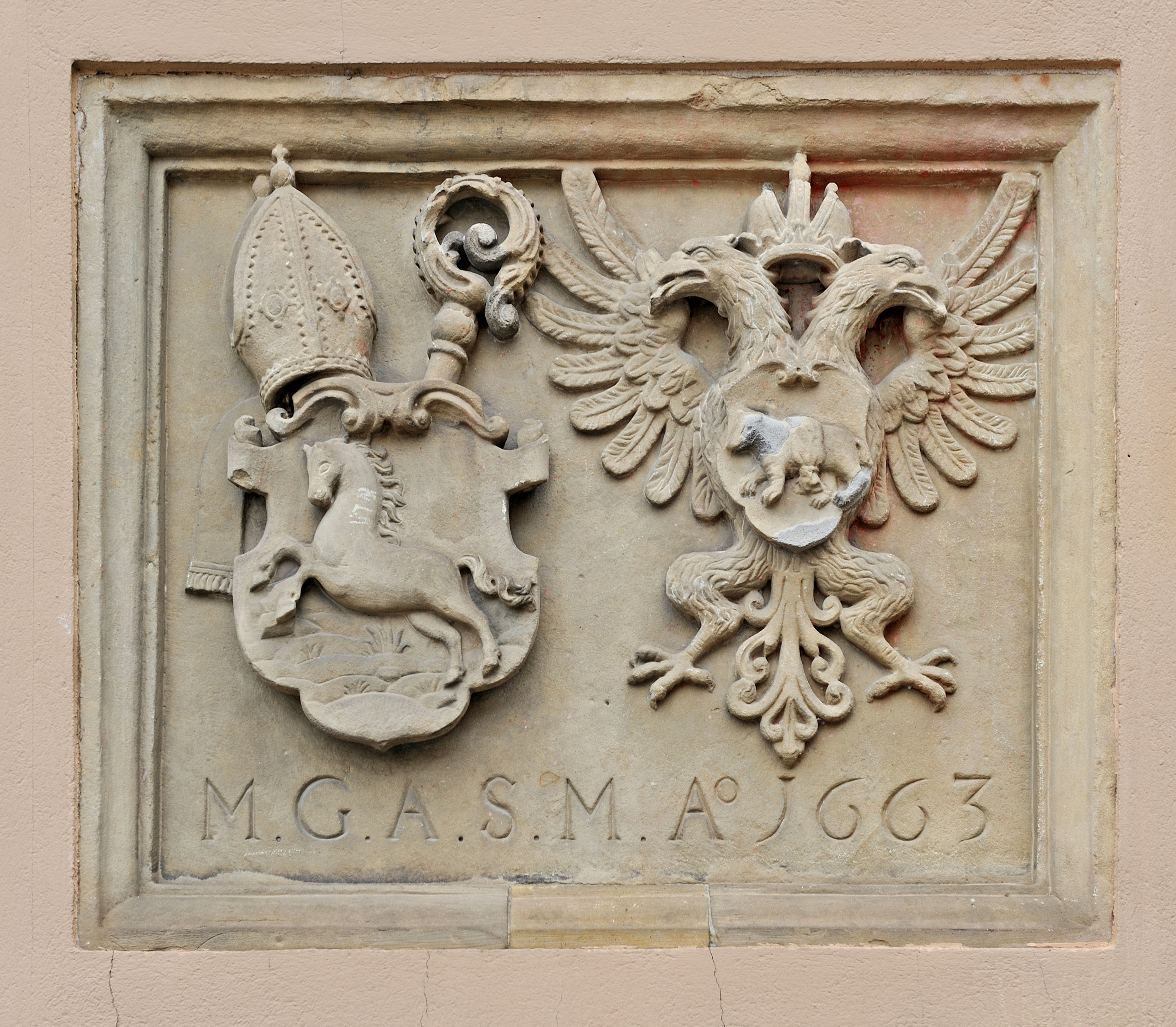 Luxembourg City, place de Clairefontiane: relief in stone on the lateral facade of the building that houses the Ministry of Foreign Affairs (Saint Maximin building).